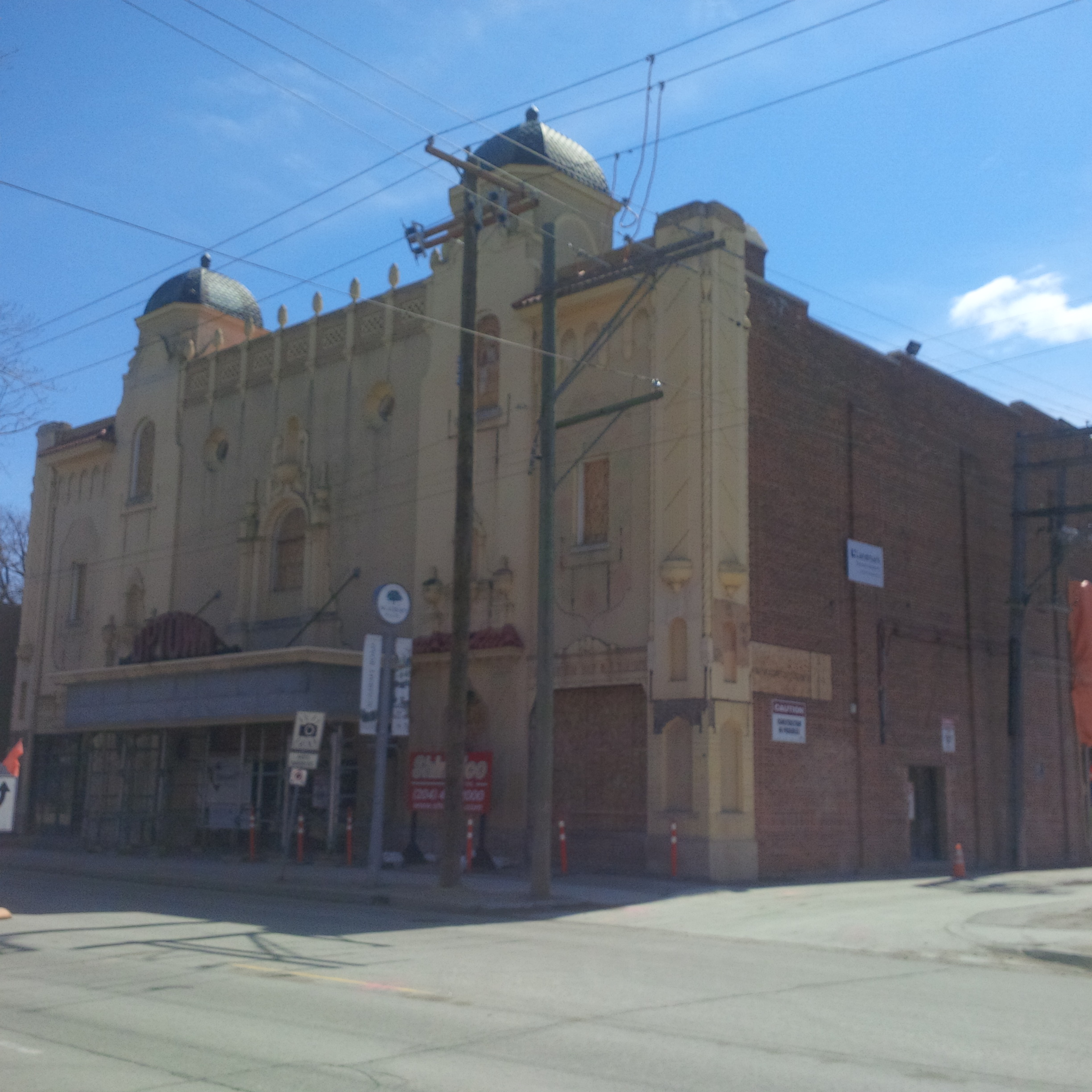 Former movie theatre and bowling alley on Academy Rd. in Winnipeg, Canada